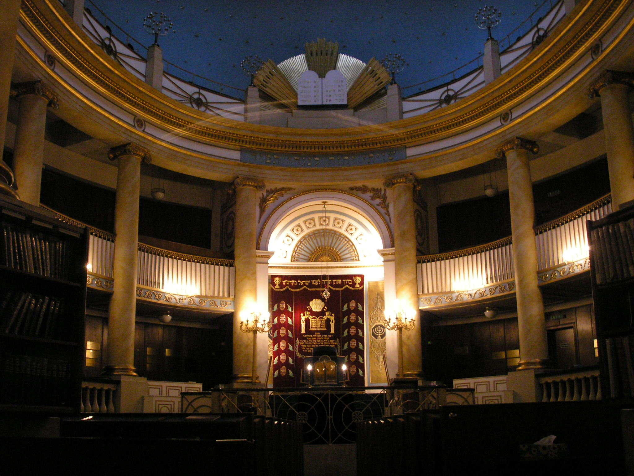 Image of the interior of the Stadttempel in Vienna.